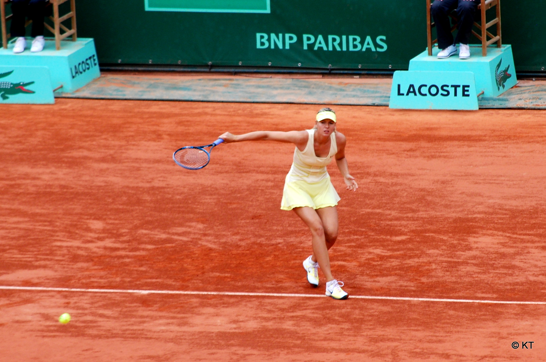 Maria Sharapova in her 2nd round match with Caroline Garcia at Roland Garros 2011. She won 3-6, 6-4, 6-0.